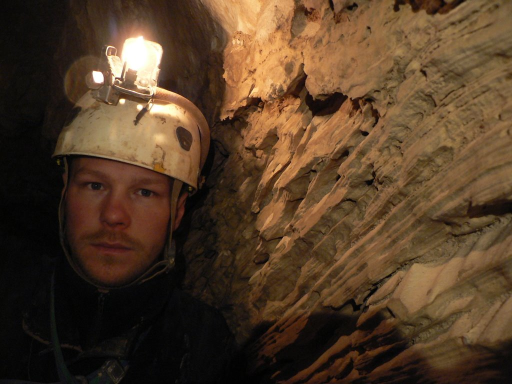 Hungarian caver with head carbide lamp.